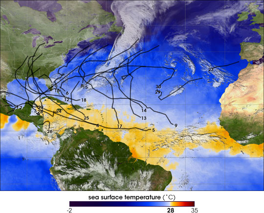 Sea surface tempreatures during the 2005 Atlantic hurricane season